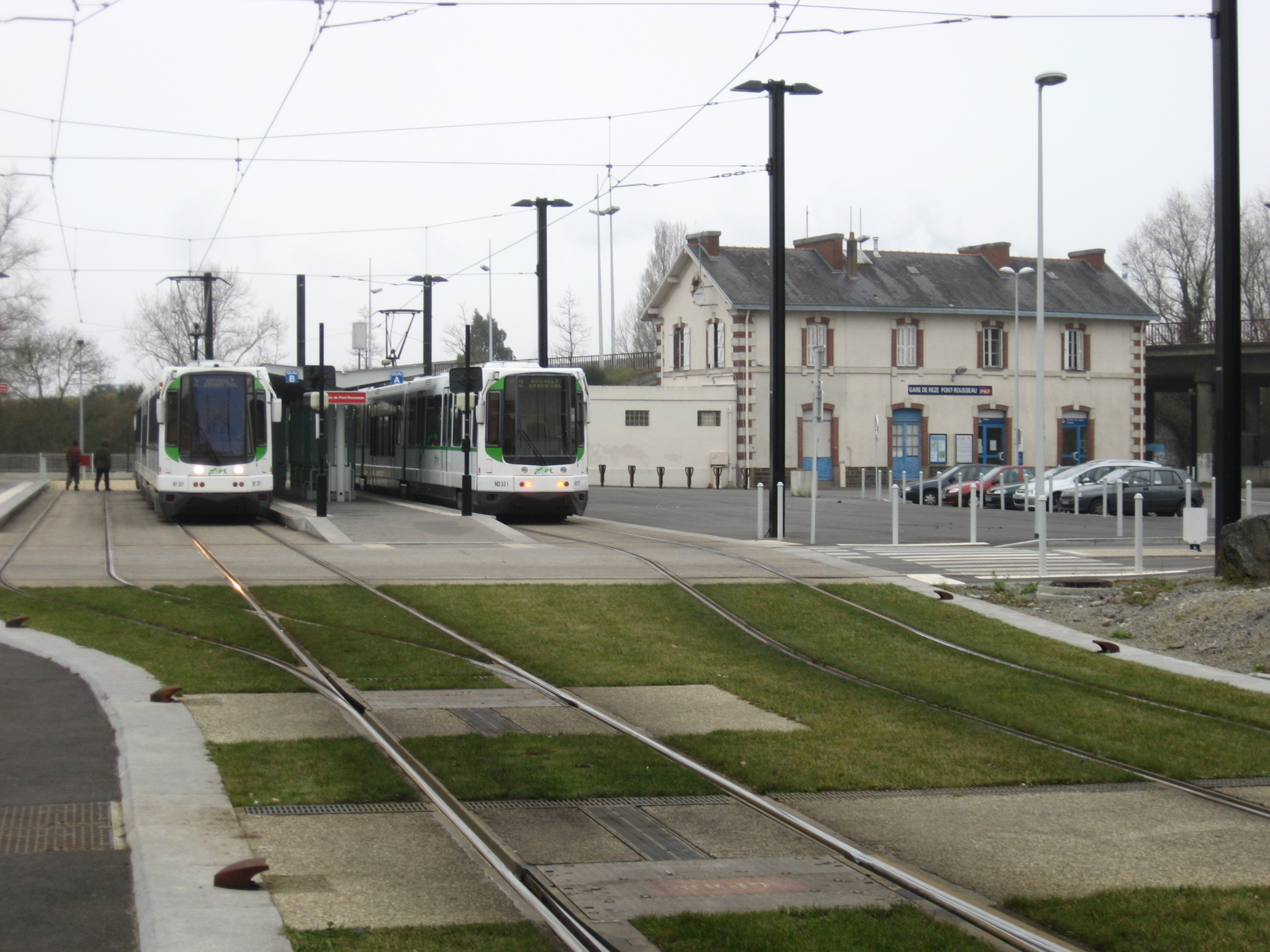 The endpoint off tramline 2 by the station "Gare de Pont Rousseau" (Nantes)